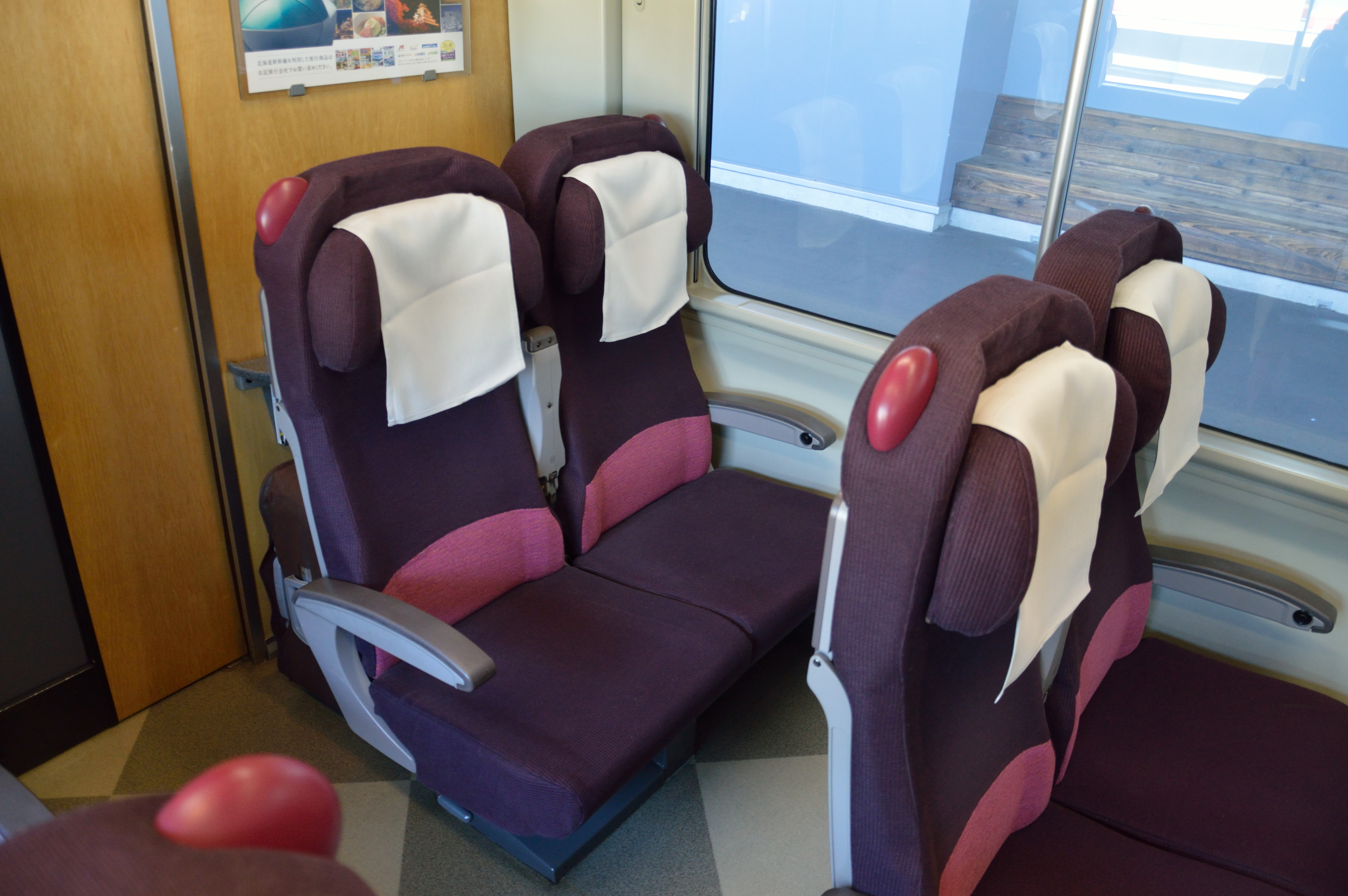 Refurbished ordinary-class seating in a JR Hokkaido KiHa 261 series DMU